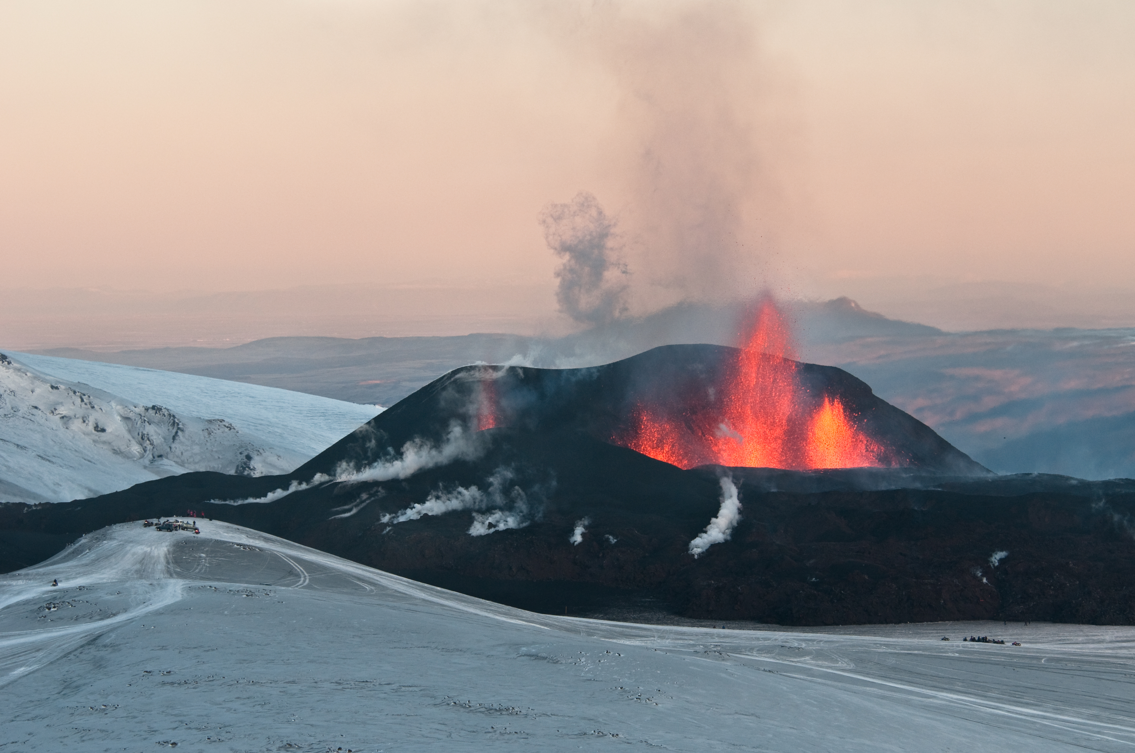 The first fissure that opened on Fimmvörðuháls, as seen from Austurgígar.